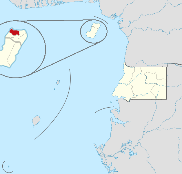 Locator map of Malabo, based on: File:Equatorial Guinea location map.svg.